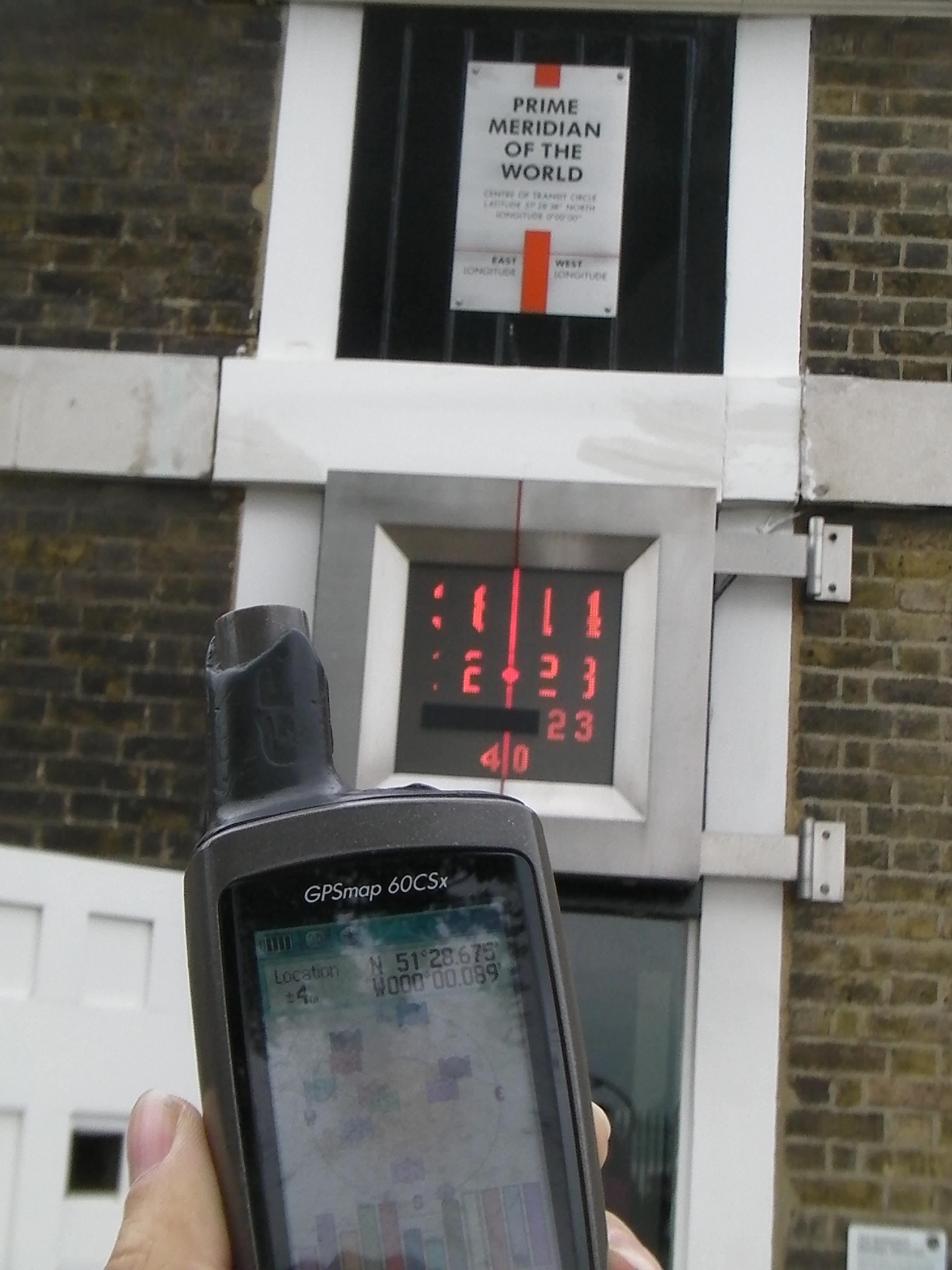 A handheld Garmin GPS receiver at the Royal Observatory, Greenwich indicating that the WGS 84 reference meridian is 0.089 arcminutes or about 5.3 arcseconds to the east of the Prime Meridian (about 100 meters at the indicated latitude)